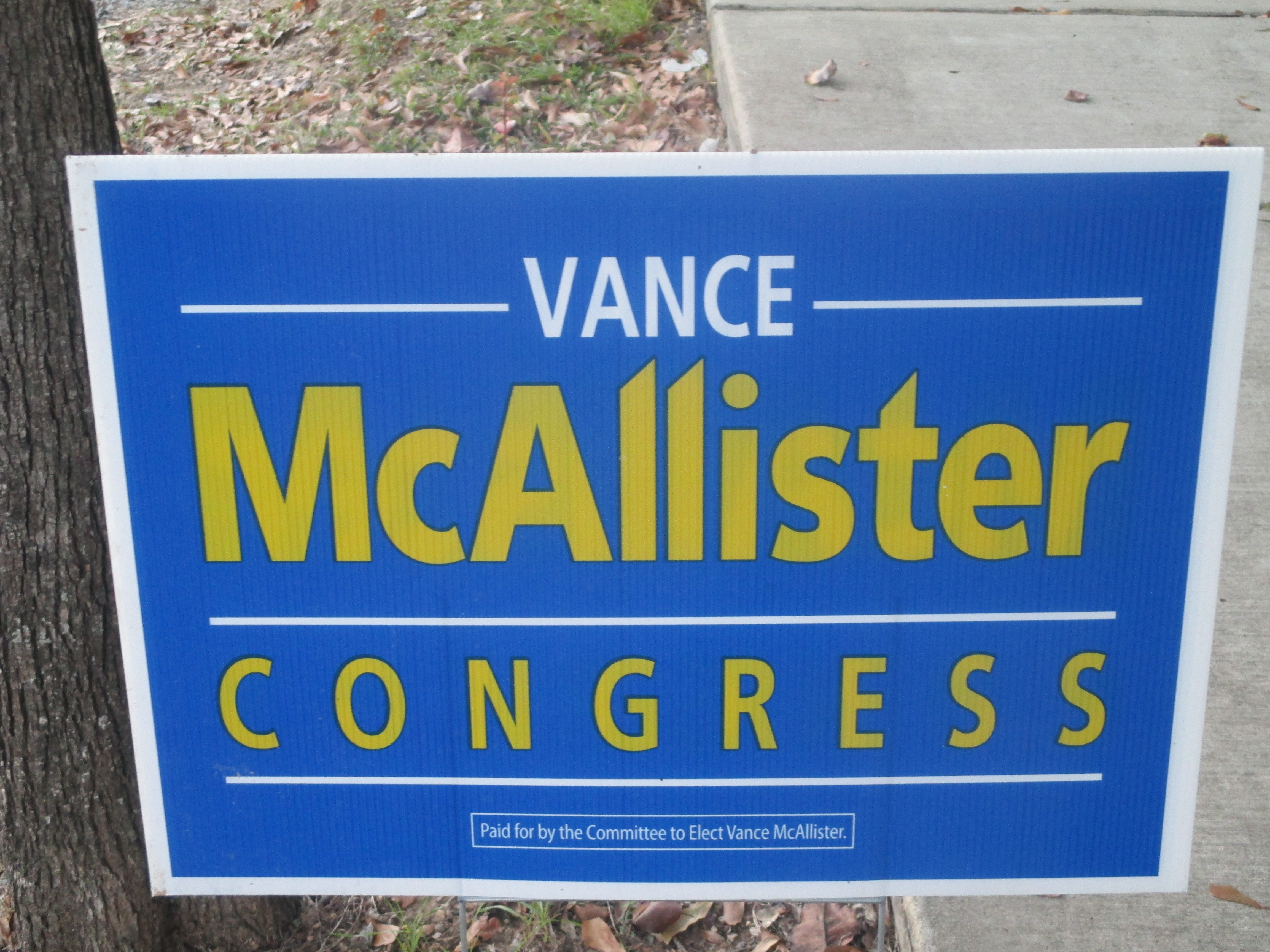 I took photo of Vance McAllister campaign poster in Jena, LA, using Canon camera.